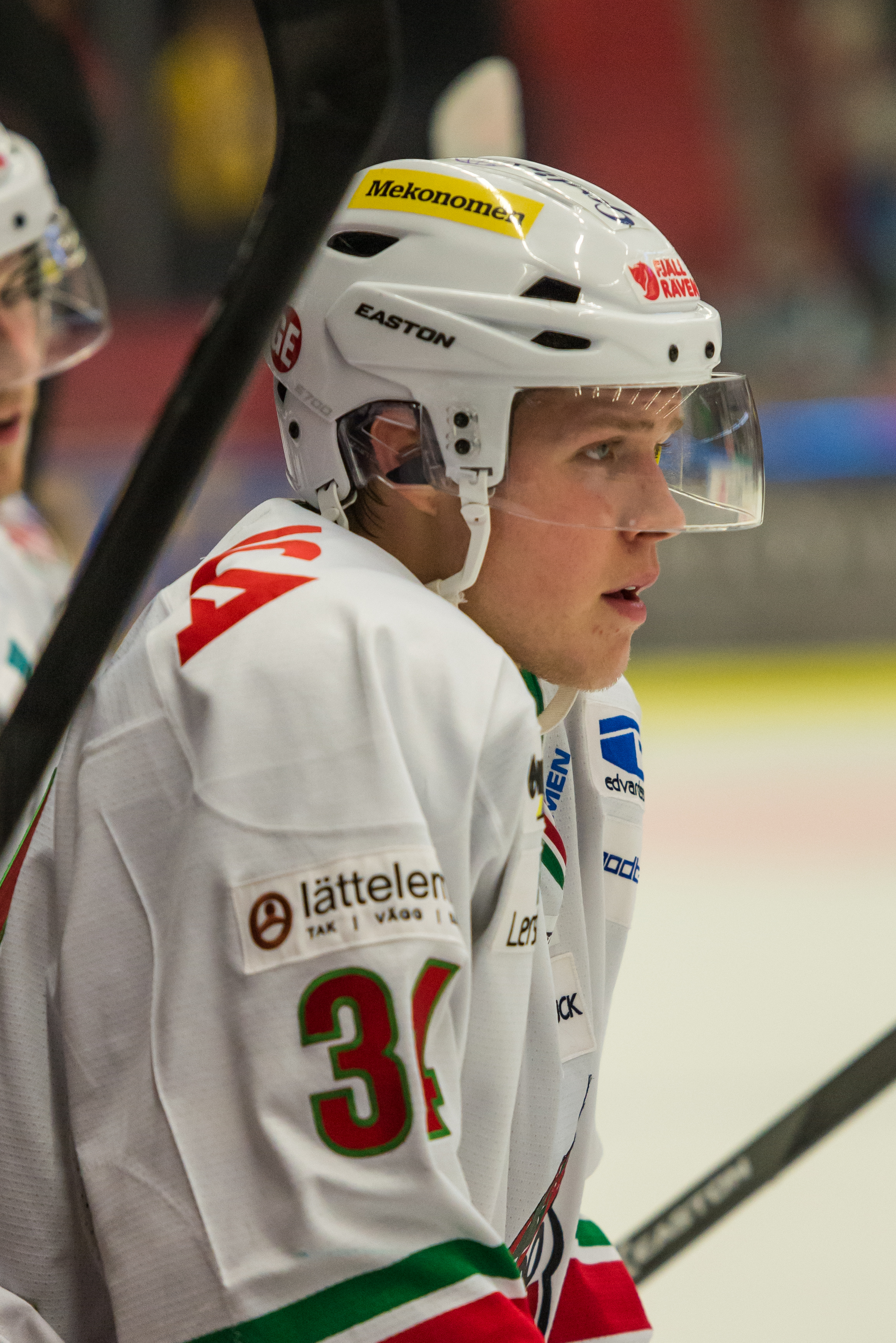 Christopher Bengtsson playing for MODO Hockey in SHL (Swedish Hockey League – Sweden's highest league) vs Örebro HK in Behrn Arena 2013-10-05.